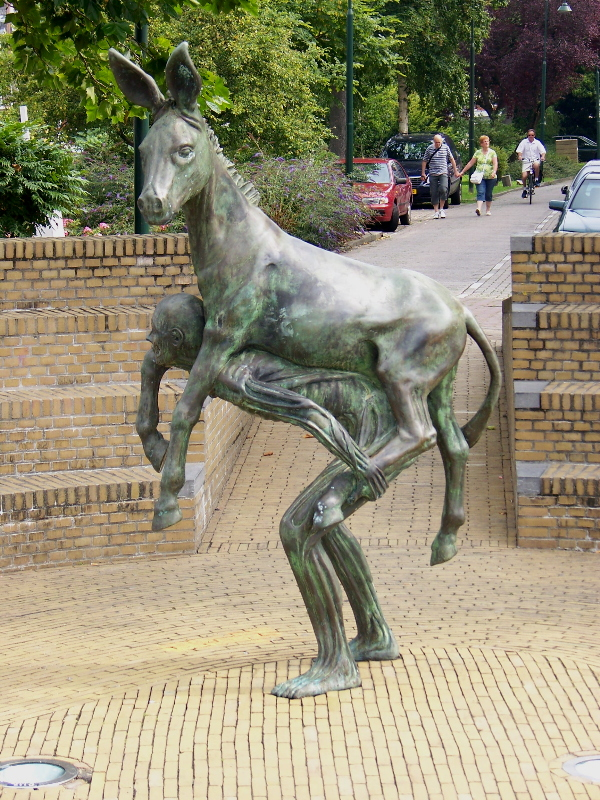 Statue Ezel gedragen door man in Gouda